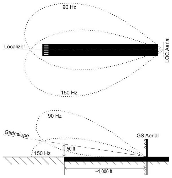 Illustration of ILS localizer and glideslope emissions.